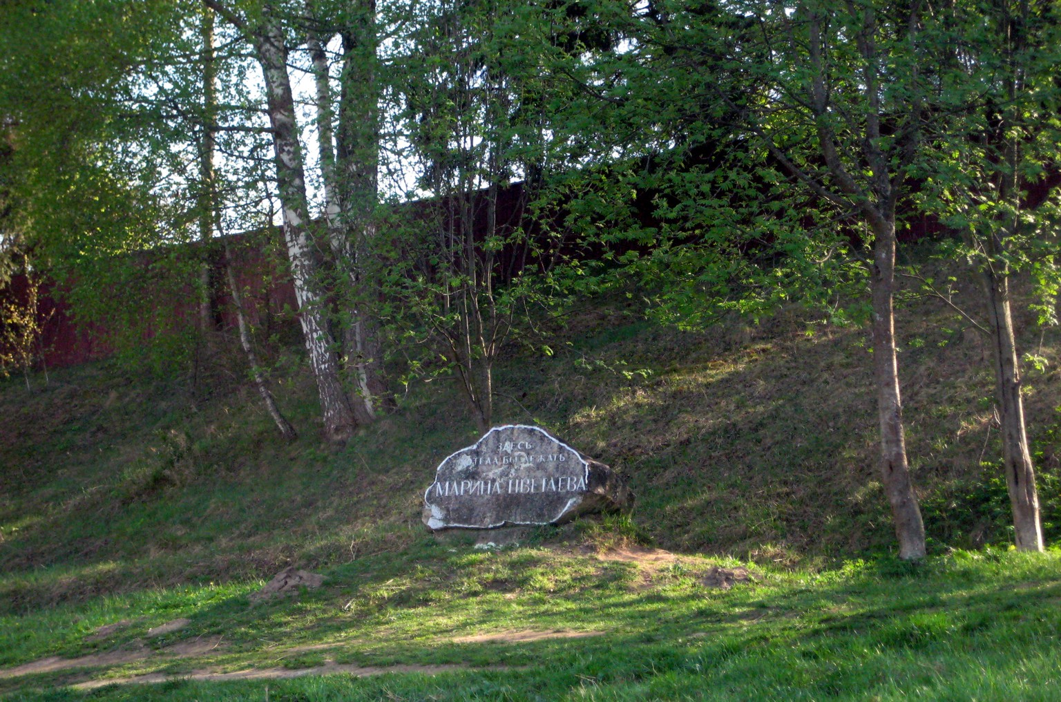 Сenotaph to Marina Tsvetaeva in the place where she would be buried.